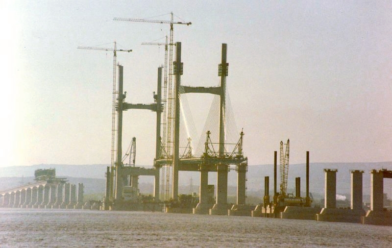 The Second Severn Crossing in construction